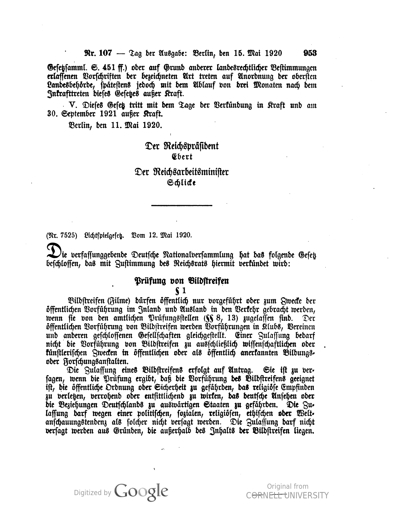 Scan from the Imperial Law Gazette of Germany, 1920